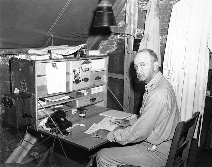 MajGen Alexander A. Vandegrift, commander 1st Marine Division, in his tent on Guadalcanal, 1942